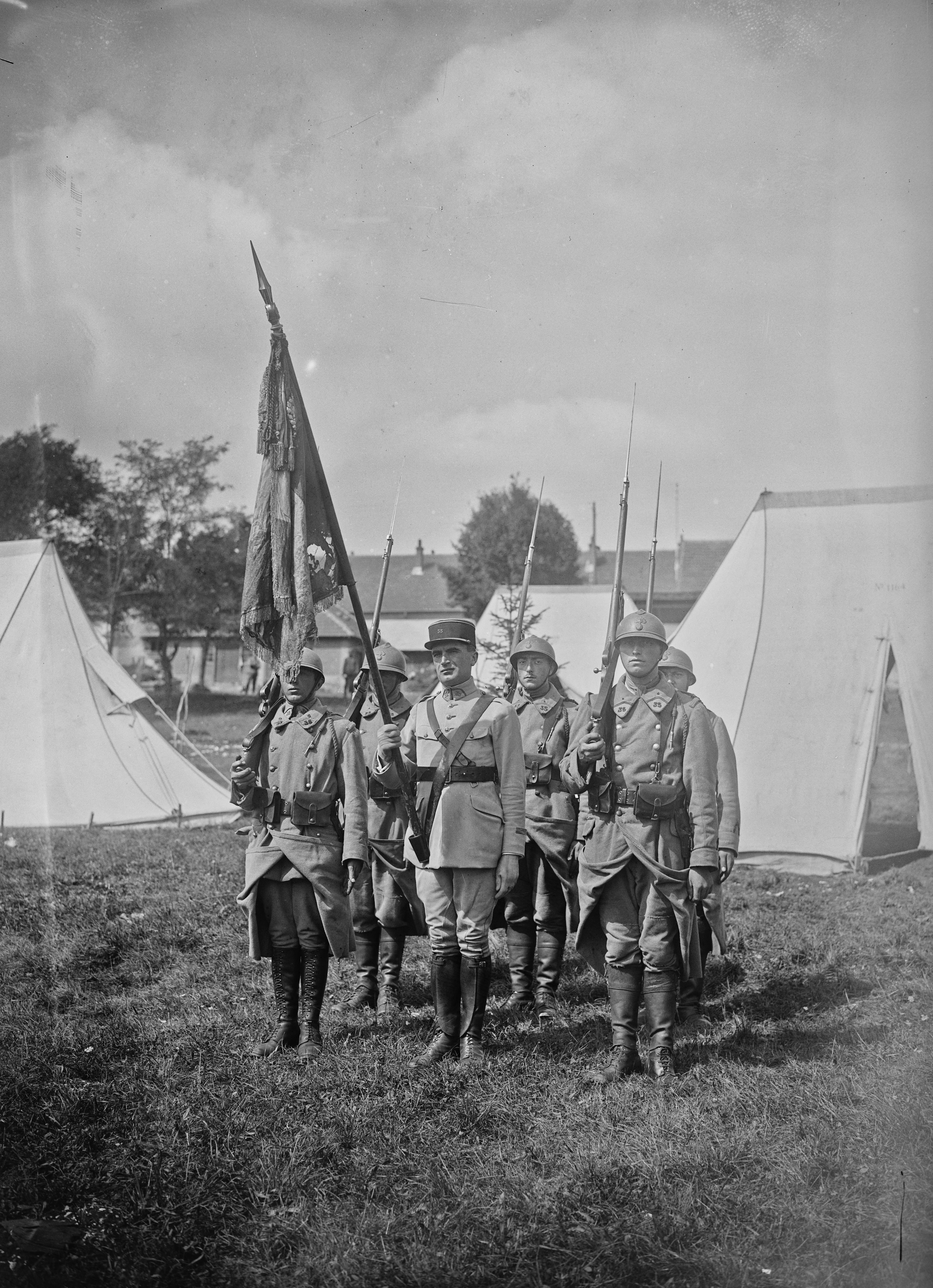 Soldiers of the 35th Infantry Regiment at the Valdahon camp